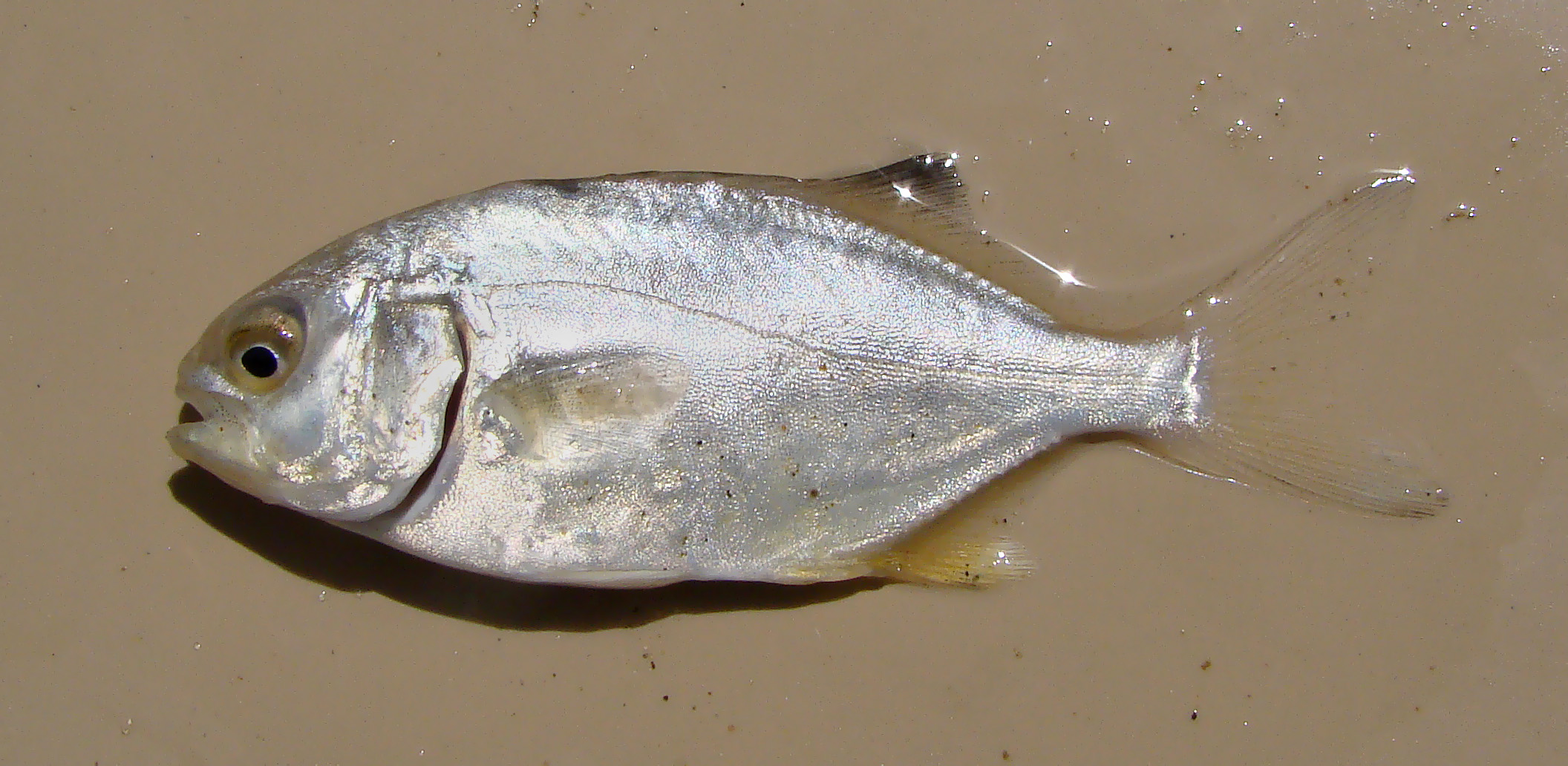 Trachinotus carolinus from the Patos Lagoon Estuary, Rio Grande do Sul, Brazil, photographed in February 2010.